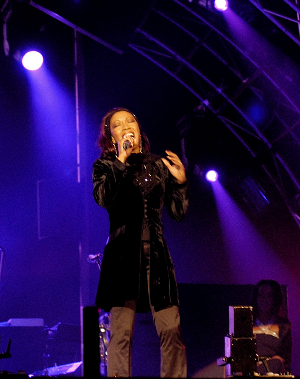 Vocalist Carol Kenyon, Roskilde Festival